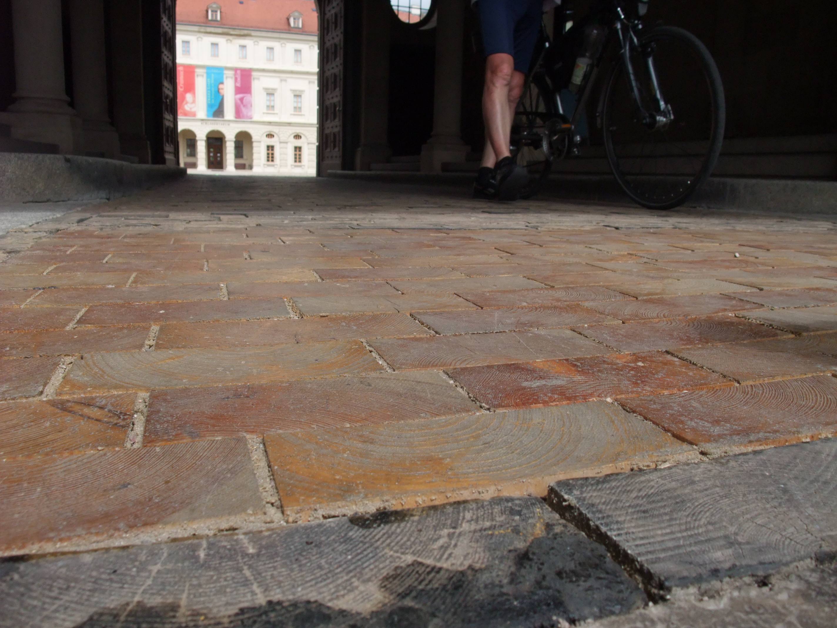 Wooden paving at Stadtschloss Weimar, Thuringia, Germany